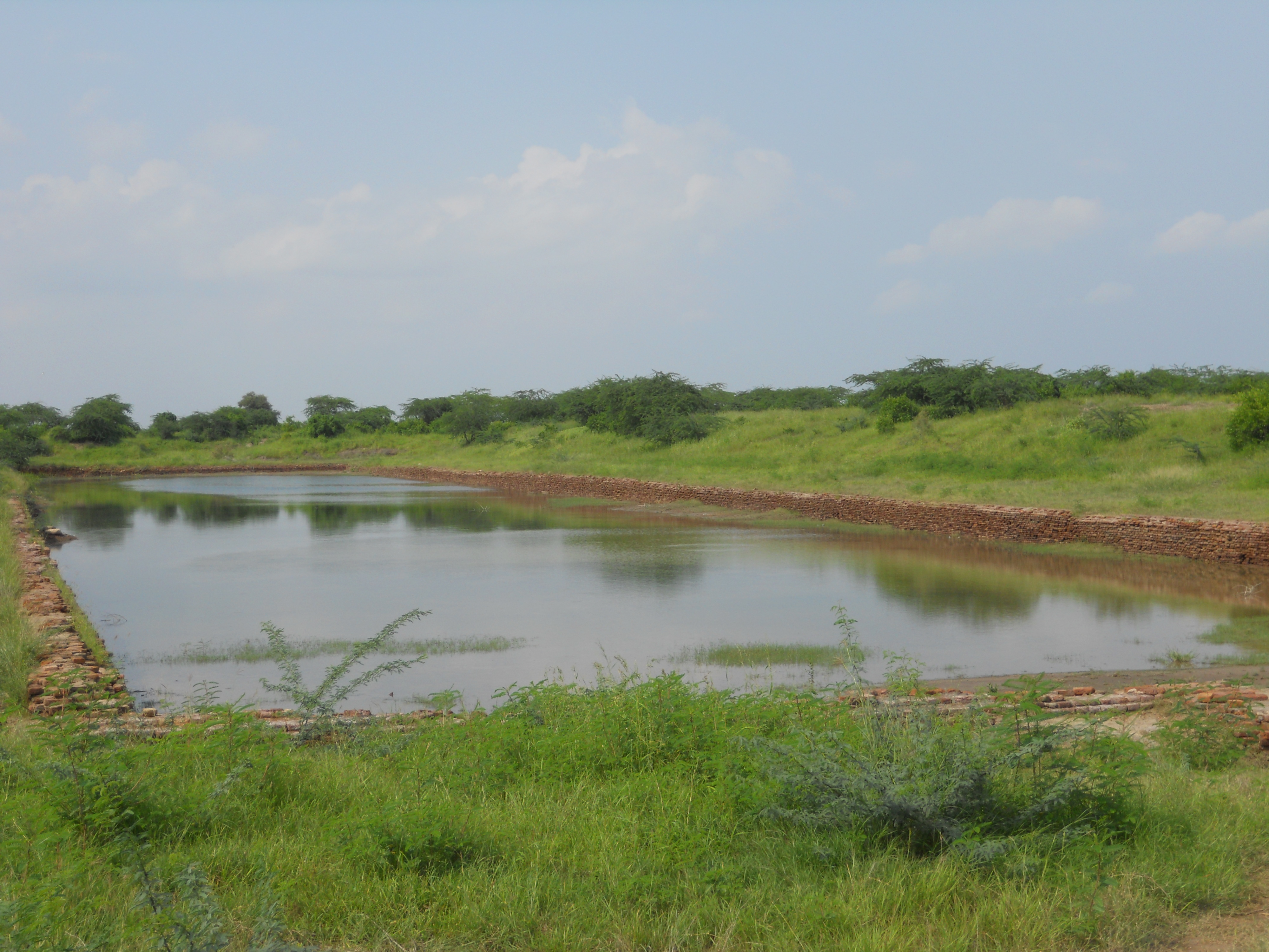 Ancient site at Lothal